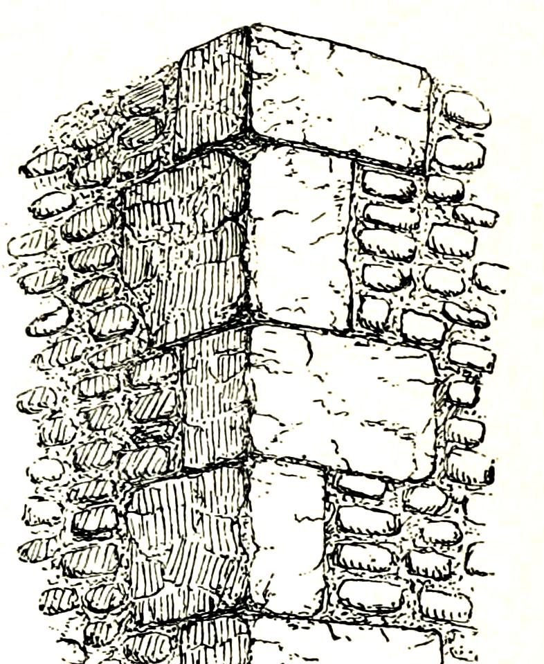 An example of Quoin work in an Anglo-Saxon church